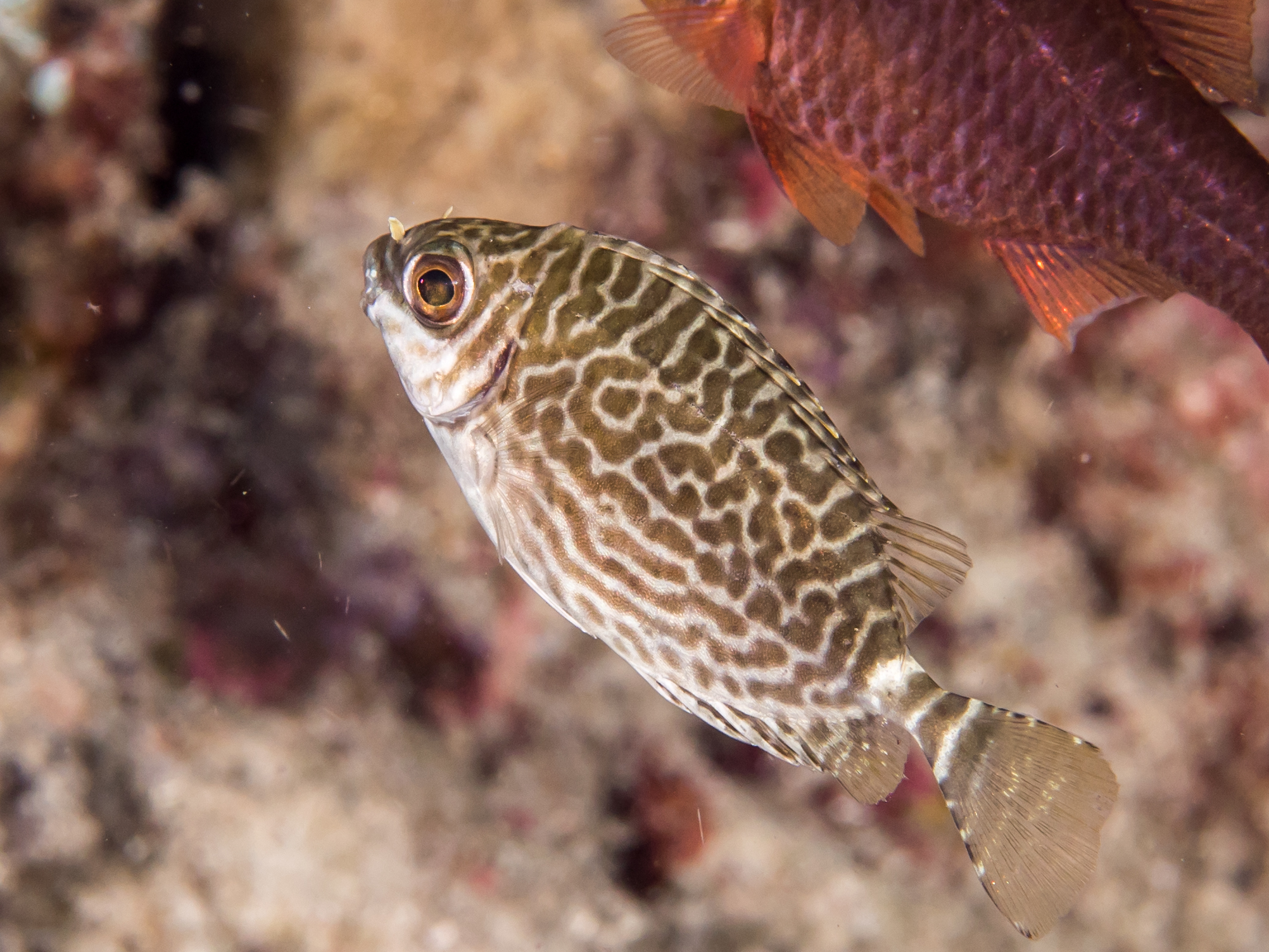 Morotai, Indonesia - Scribbled rabbitfish (Siganus spinus)